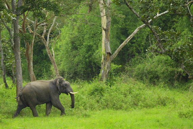 Bull elephant (tusker) in Bandipur